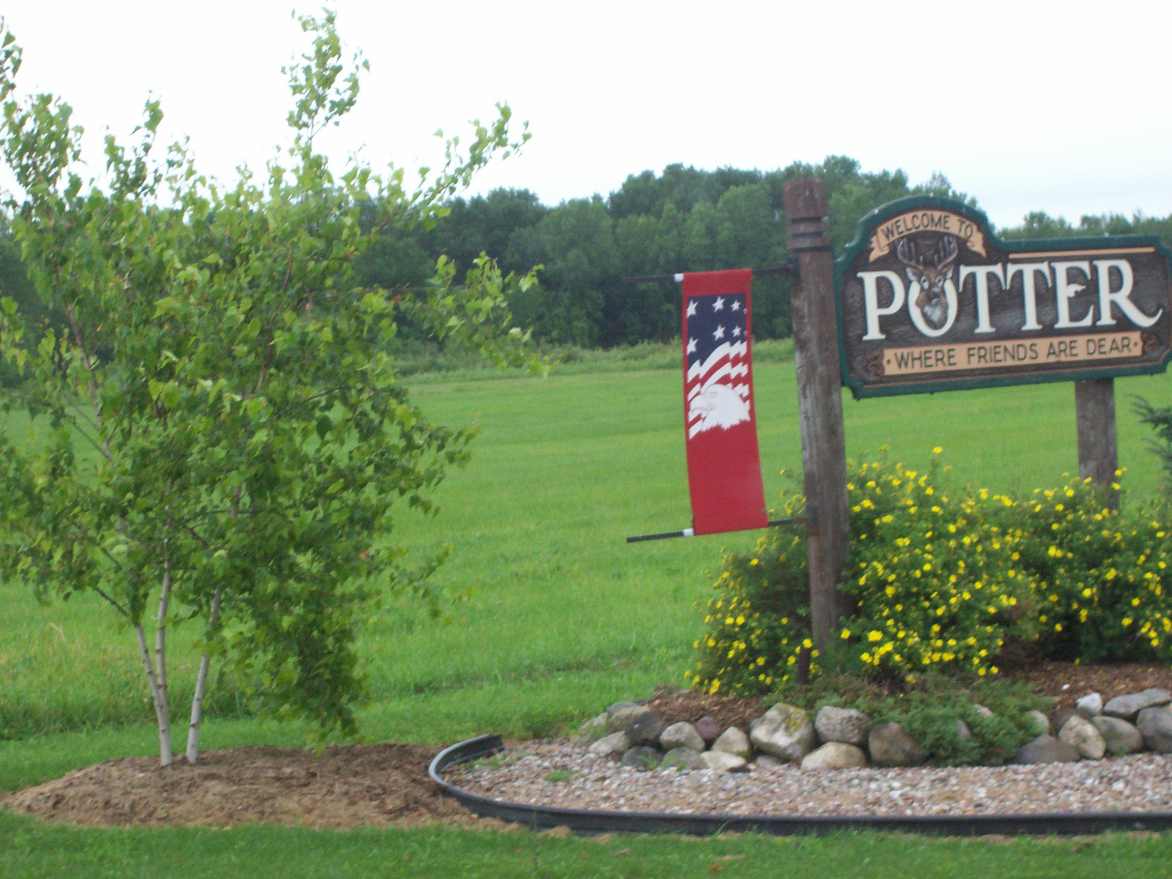 Welcome sign in Potter, Wisconsin, USA formerly Wisconsin Highway 114, taken July 11 2006 by myself.